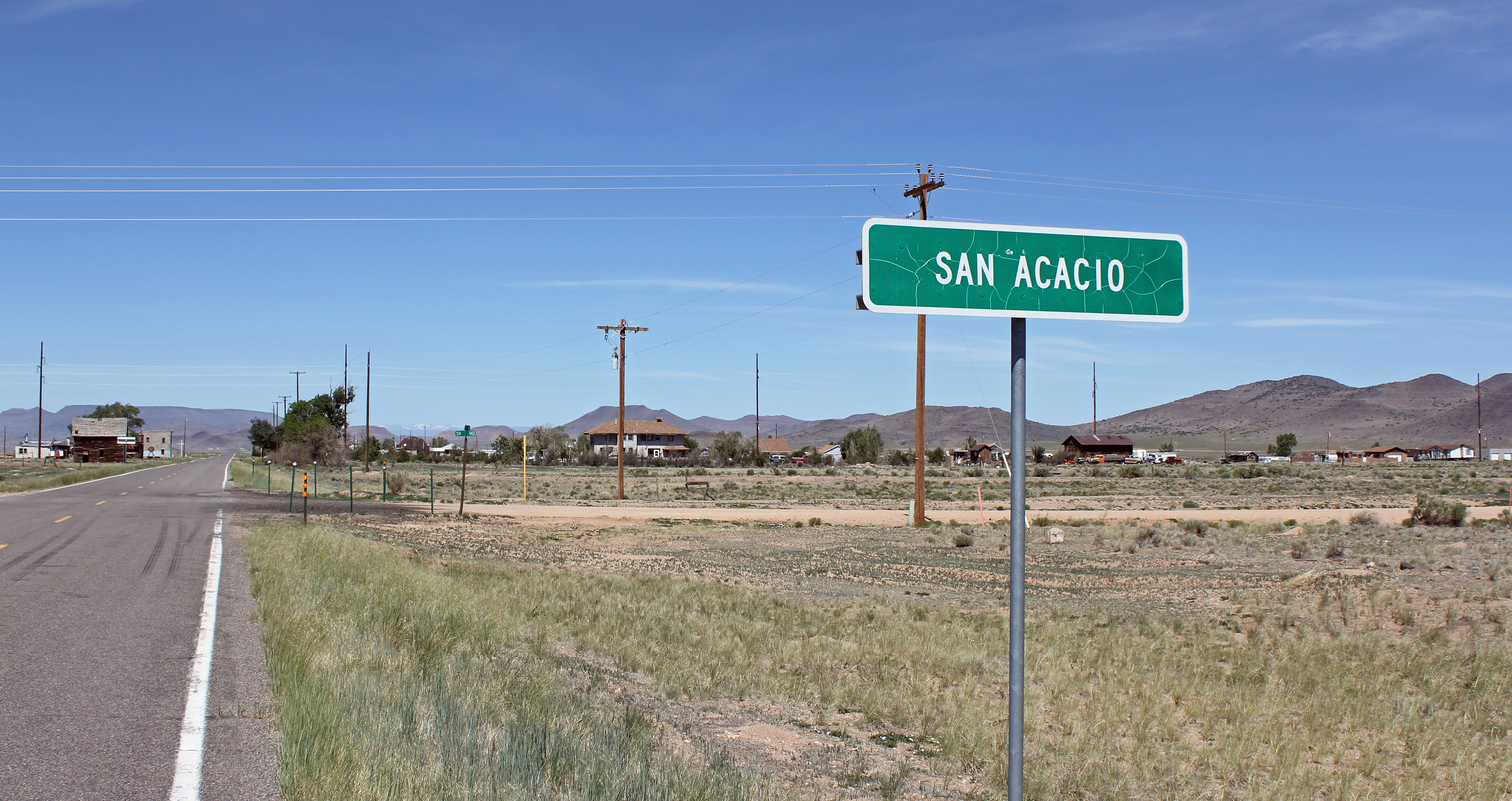 The town of San Acacio, Costilla County, Colorado.